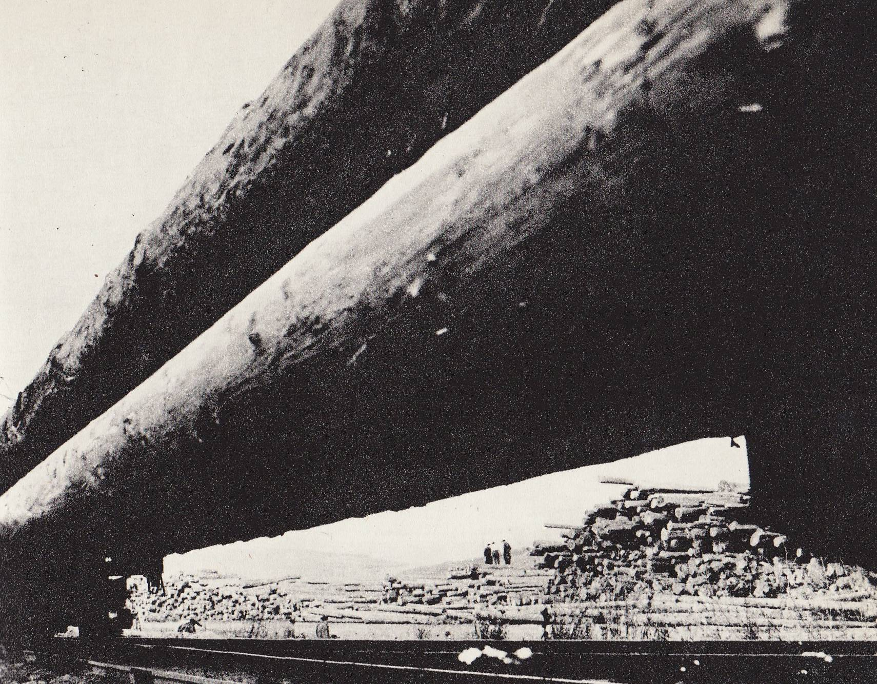 Sawmill in Rzepedź